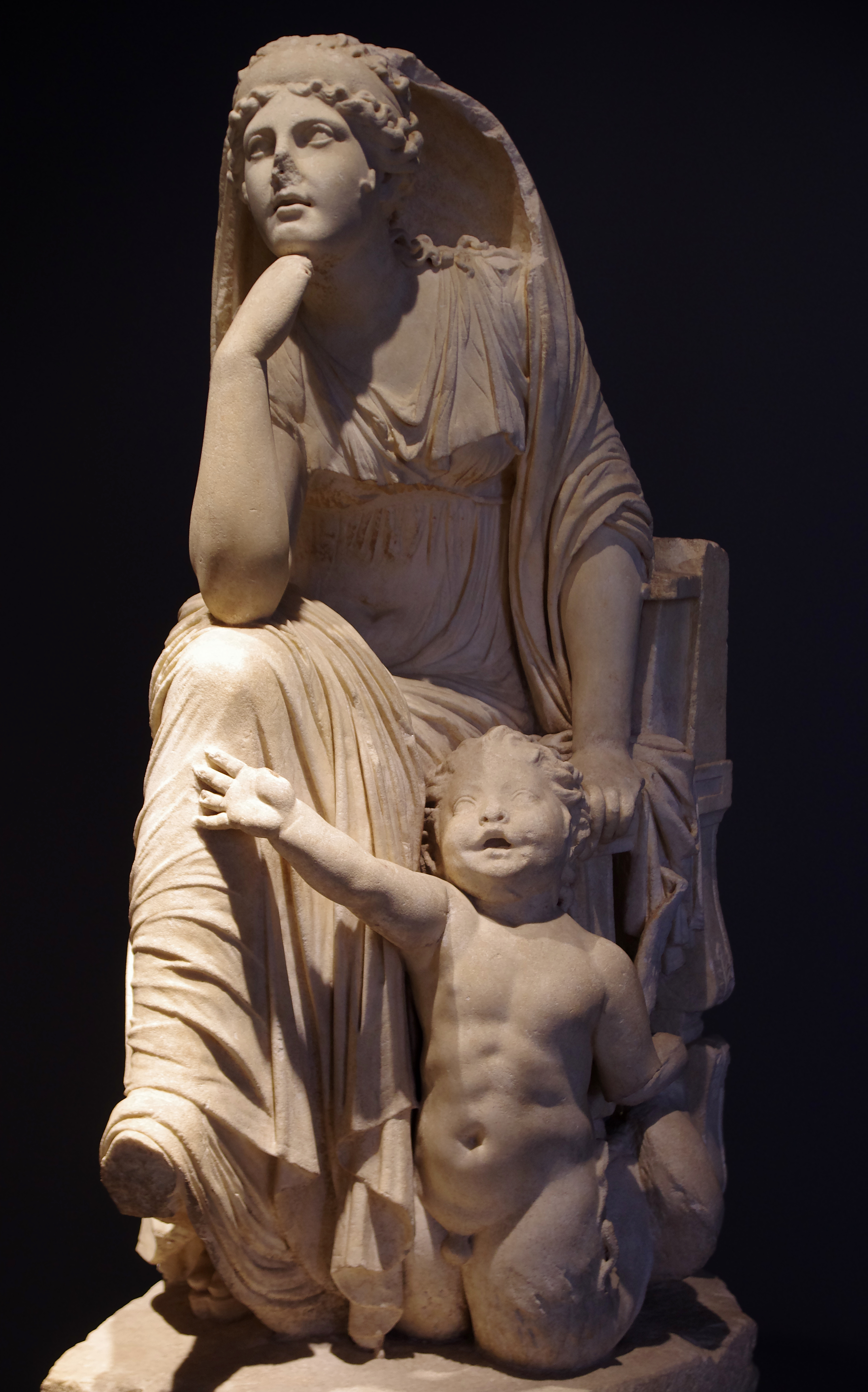 Sculpture of Thetis and Triton child in Palazzo Massimo alle Terme